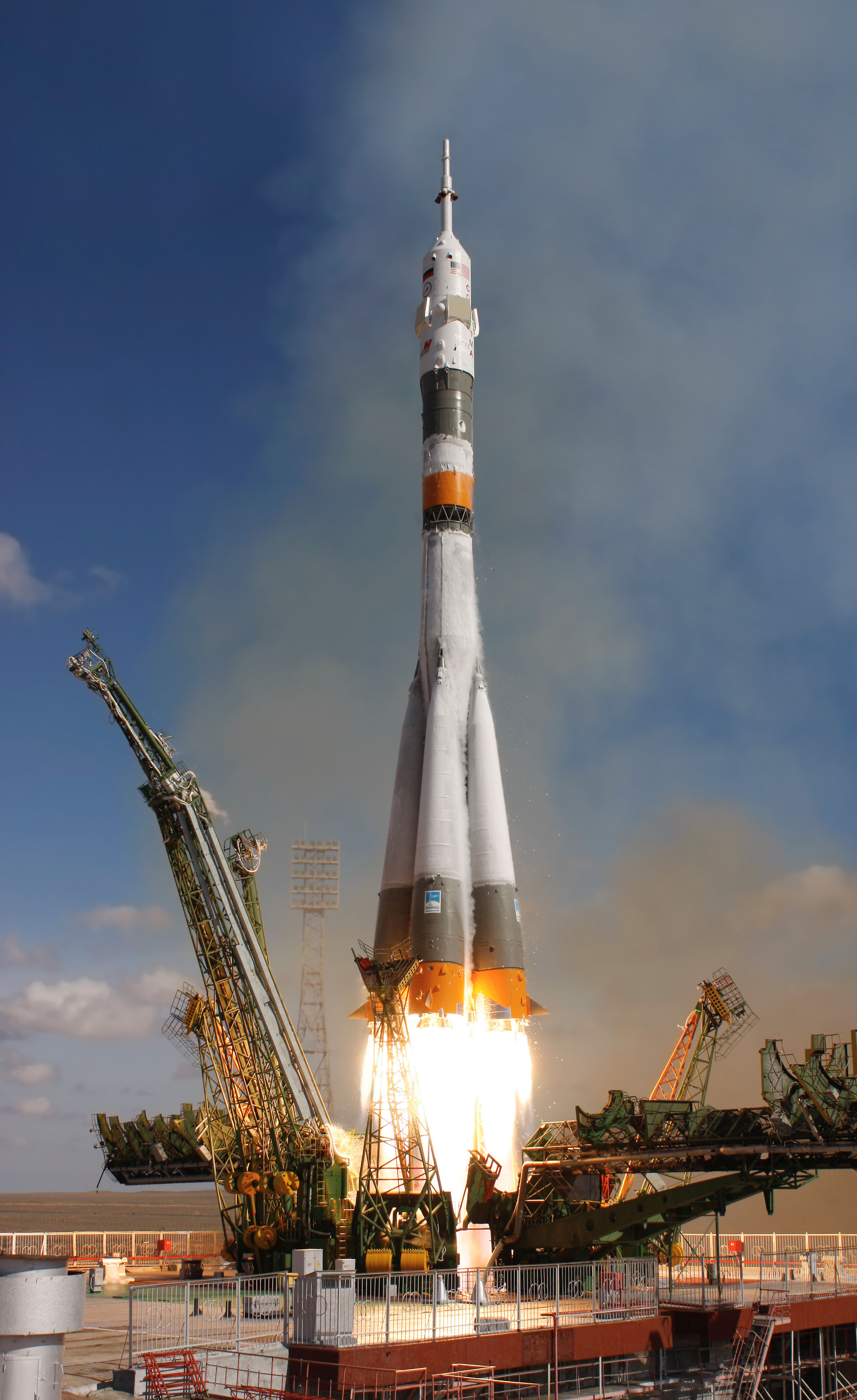 The Soyuz TMA-13 spacecraft, carrying Expedition 18 Commander Michael Fincke, Flight Engineer Yury V. Lonchakov and American spaceflight participant Richard Garriott, launched Sunday, October 12, 2008, from the Baikonur Cosmodrome in Kazakhstan. The three crew members are scheduled to dock with the International Space Station on Oct. 14. Fincke and Lonchakov will spend six months on the station, while Garriott will return to Earth October 24, 2008, with two of the Expedition 17 crew currently aboard the International Space Station.